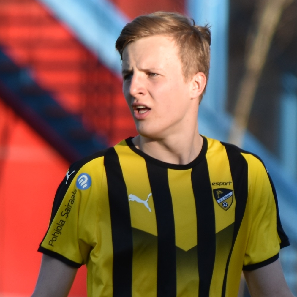 Association football player Robert Ivanov (FC Honka)